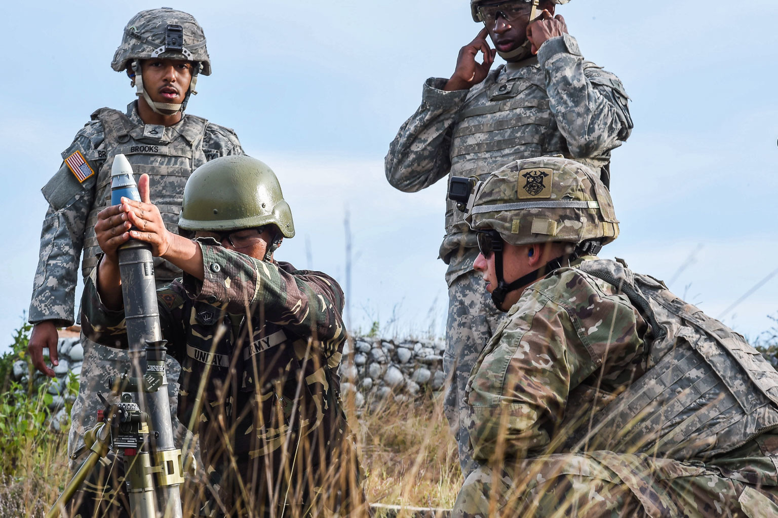 170514-N-FV745-0256 SANTA ROSA, Philippines (May 14, 2017) A Philippine soldier prepares to fire off a mortar round with U.S. Army soldiers assigned to 1st Battalion, 23rd Infantry Regiment during Balikatan 2017 at Fort Magsaysay in Santa Rosa, Philippines. The exercise allows Philippine and U.S. militaries build upon shared tactics, techniques, and procedures that enhance readiness and response capabilities to emerging threats. Balikatan is an annual U.S.-Philippine bilateral military exercise focused on a variety of missions, including humanitarian assistance and disaster relief, counterterrorism, and other combined military operations. (U.S. Navy photo by Mass Communication Specialist 2nd Class Daniel James Lewis/Released)